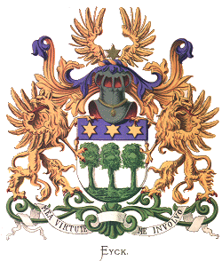 Coat of arms of the Dutch family Eyck